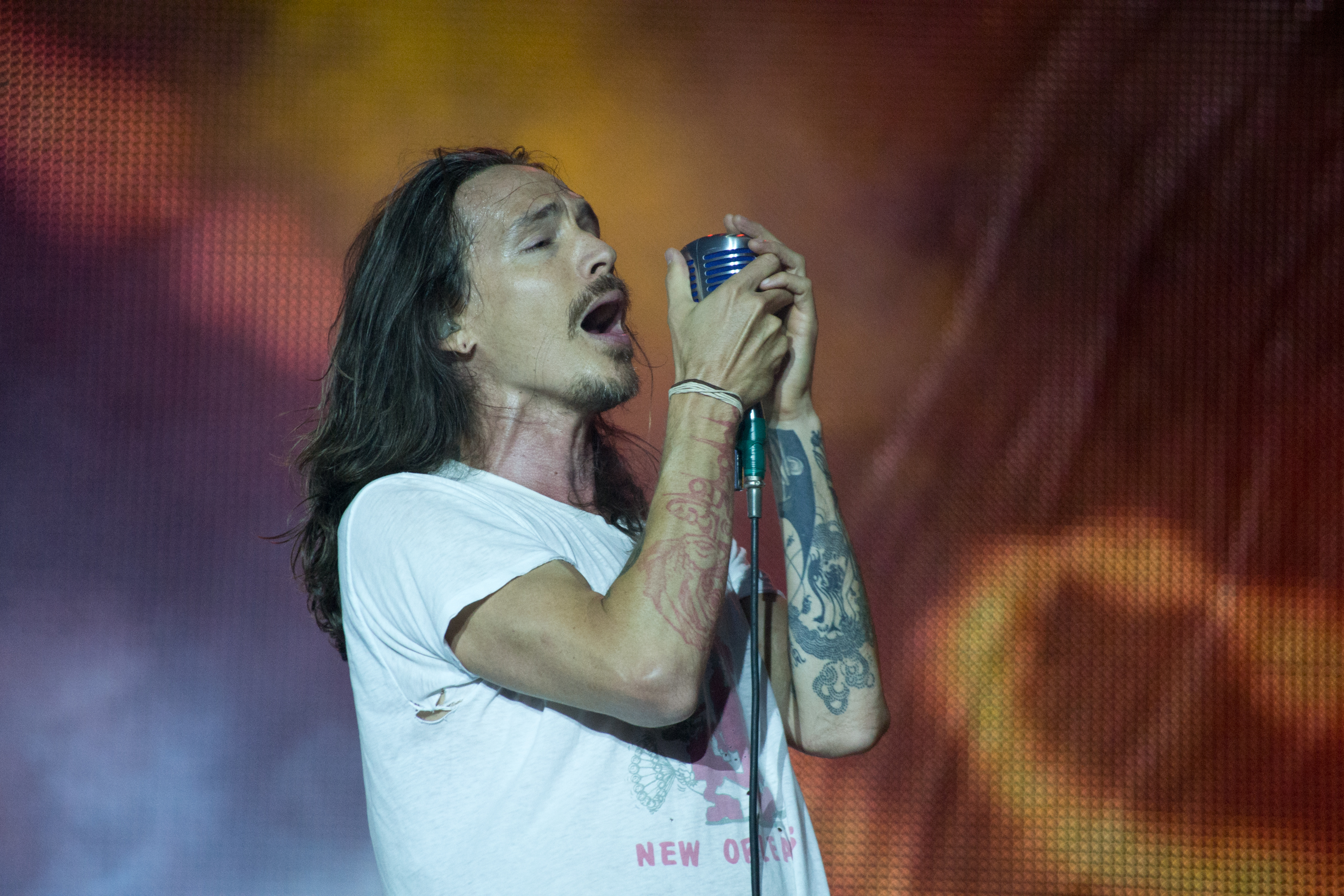 Incubus in Rock in Rio Madrid 2012.